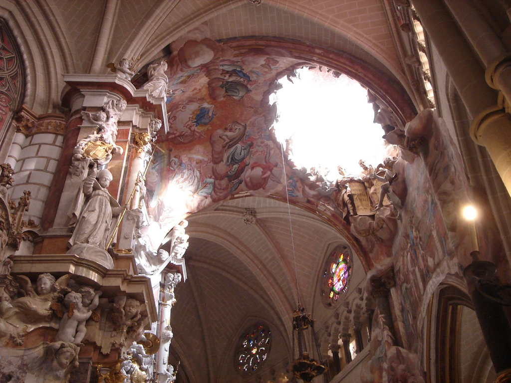 Transparente of Narciso Tomé. Toledo Cathedral, SpainTransparente